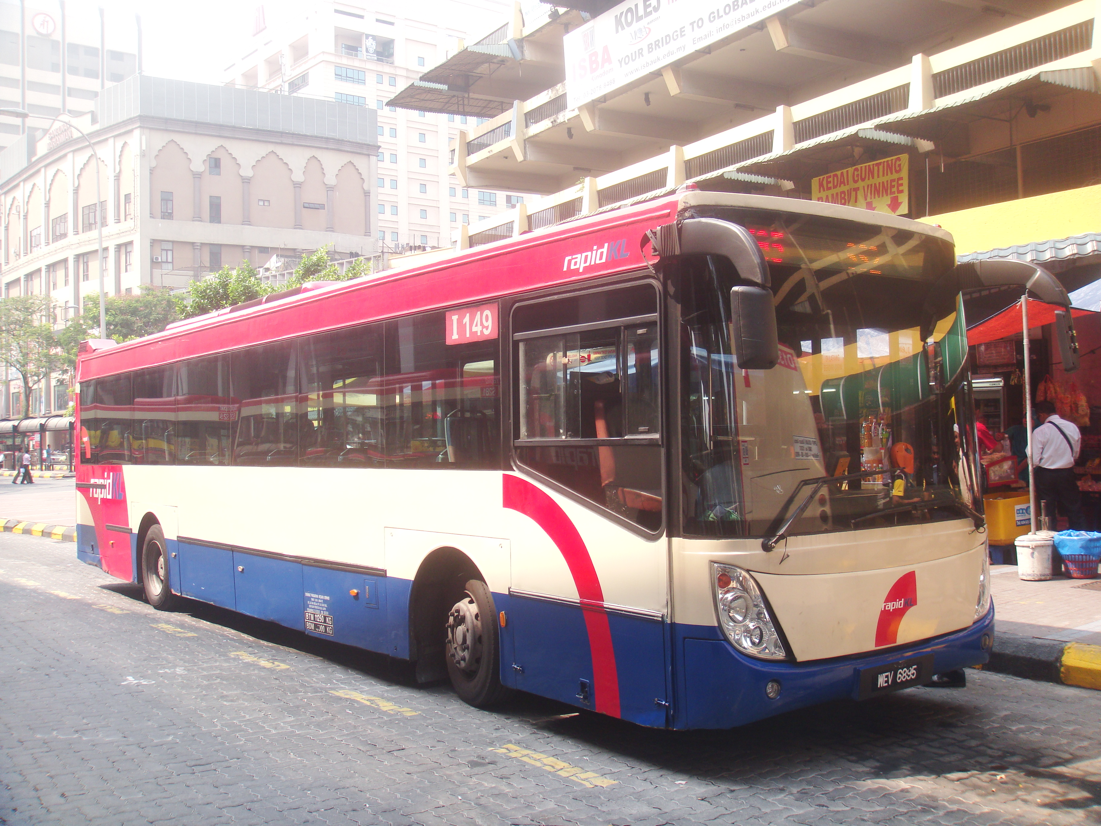 An refurbished Iveco TurboCity bus operated by RapidKL in Kuala Lumpur, Malaysia.